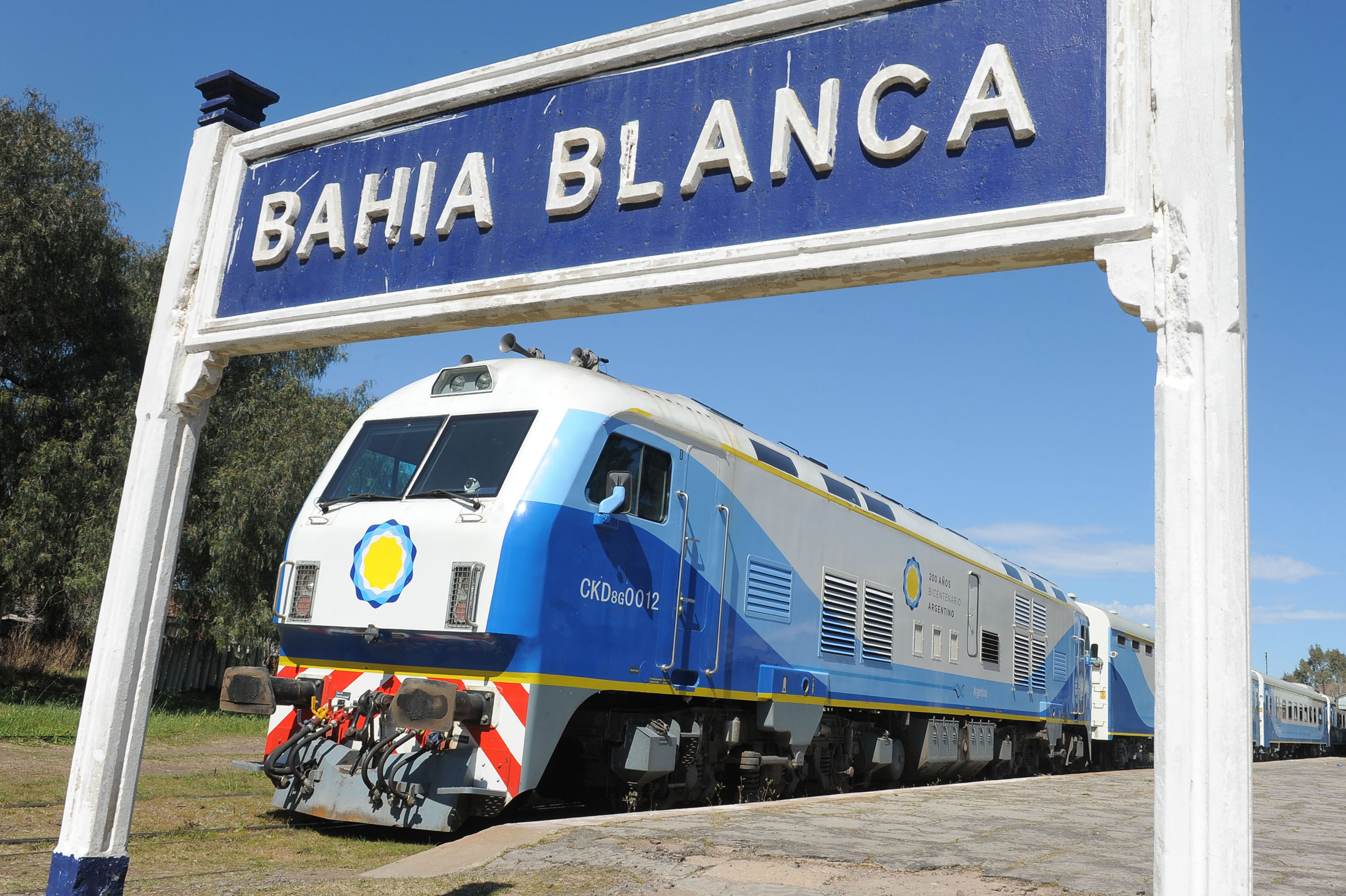 A Trenes Argentinos CNR CKD8 locomotive at Bahia Blanca Sud railway station.